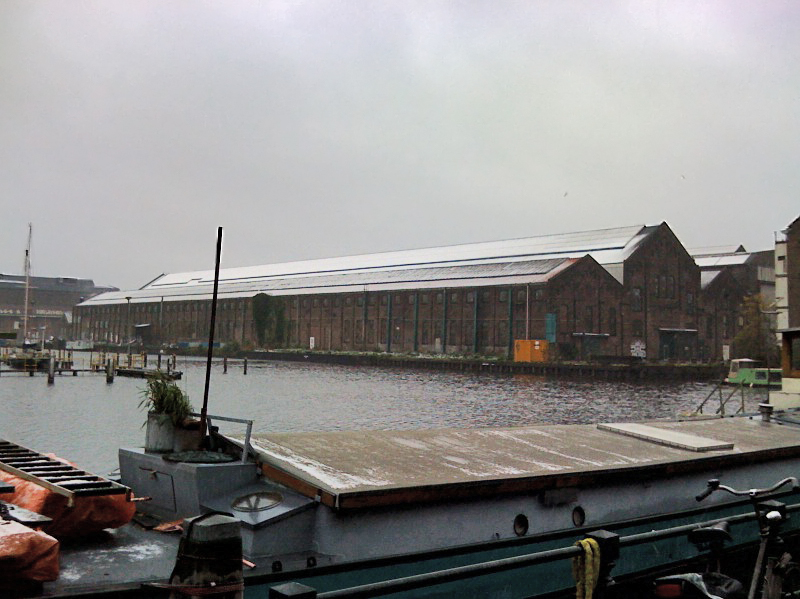 Buidings of Werkspoor